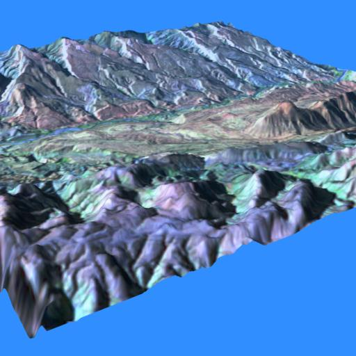 Computer rendering of a topographic map of the Camargo Syncline in Bolivia. The topographic data was generated by a stereo analysis algorithm developed by Jim Strong (NASA/GSFC) for the Goodyear MPP (Massively Parallel Processor).